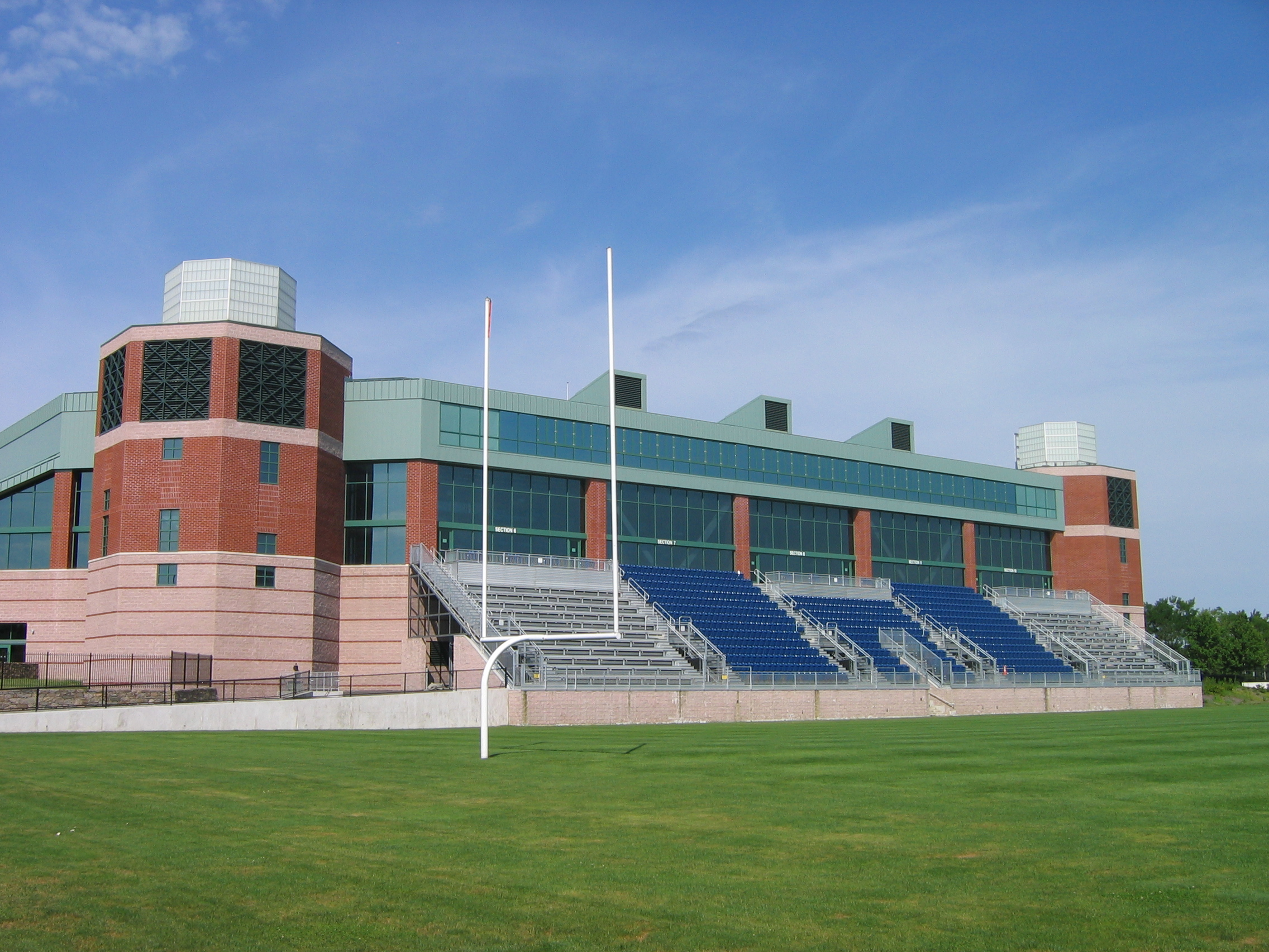 Football & Basketball Facilities U Rhode Island Football Stadium w/Visitor Stands hooked to Basketball Arena